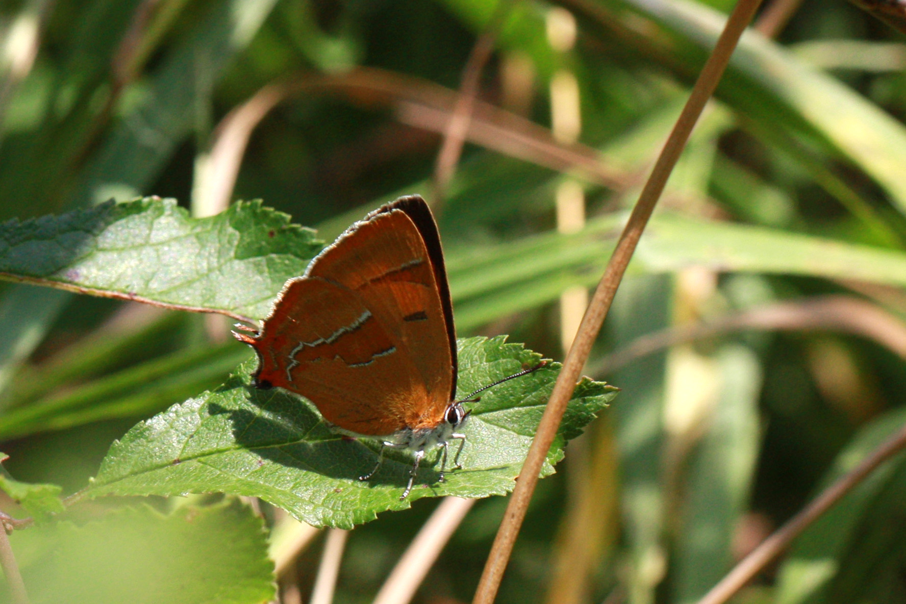 Brown hairstreak butterfly (Thecla betulae) female, Otmoor, Oxfordshire